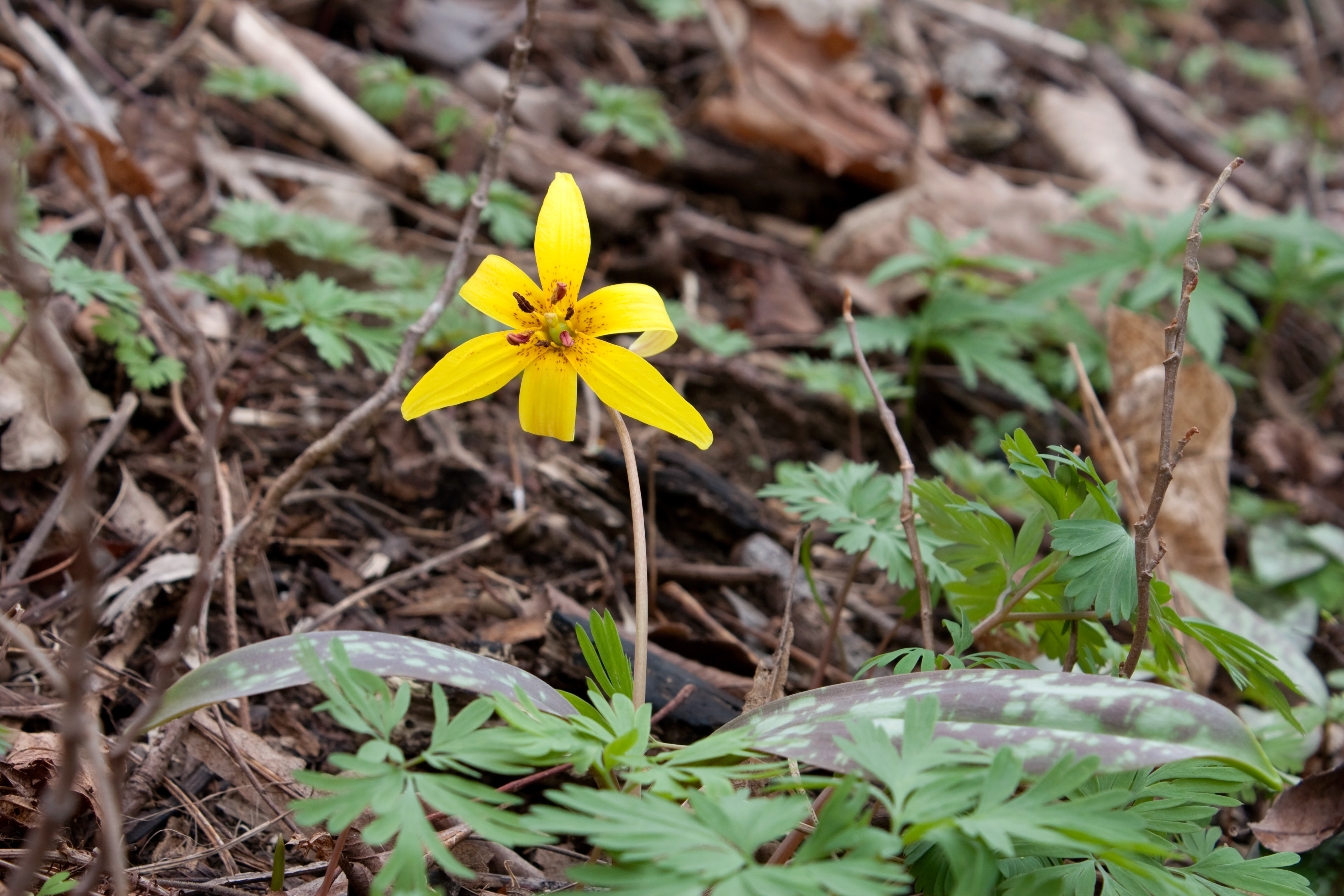 Trout lily (Erythronium americanum) at Radnor Lake in Nashville, Tennessee